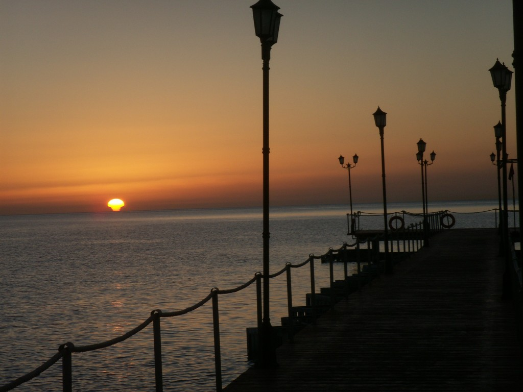 Sunrises in Magic Life Club Kalawy Bay near Port Safaga / Al-Qusair / Egypt / Red Sea. Jetty to the reef of the Magic Life Club, heading east.